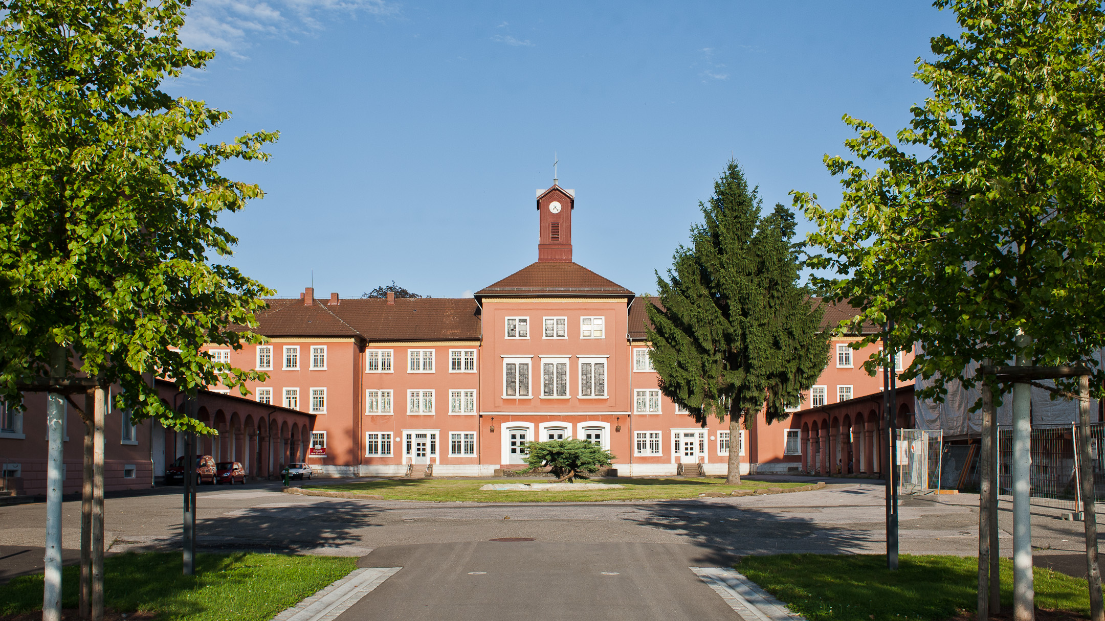 Main building of the Illenau, July 2011